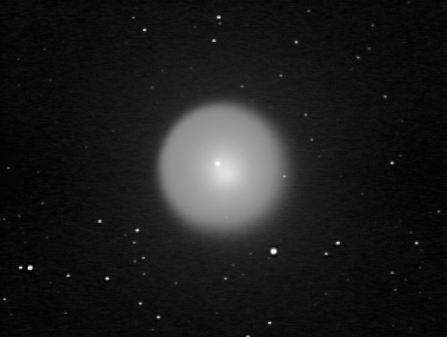 Comet 17P/Holmes, 0800 UT October 30, 2007. Location: Costa Mesa, California Instrument: Vixen ED80Sf, 80mm f/7.5 Camera: Meade DSI I.